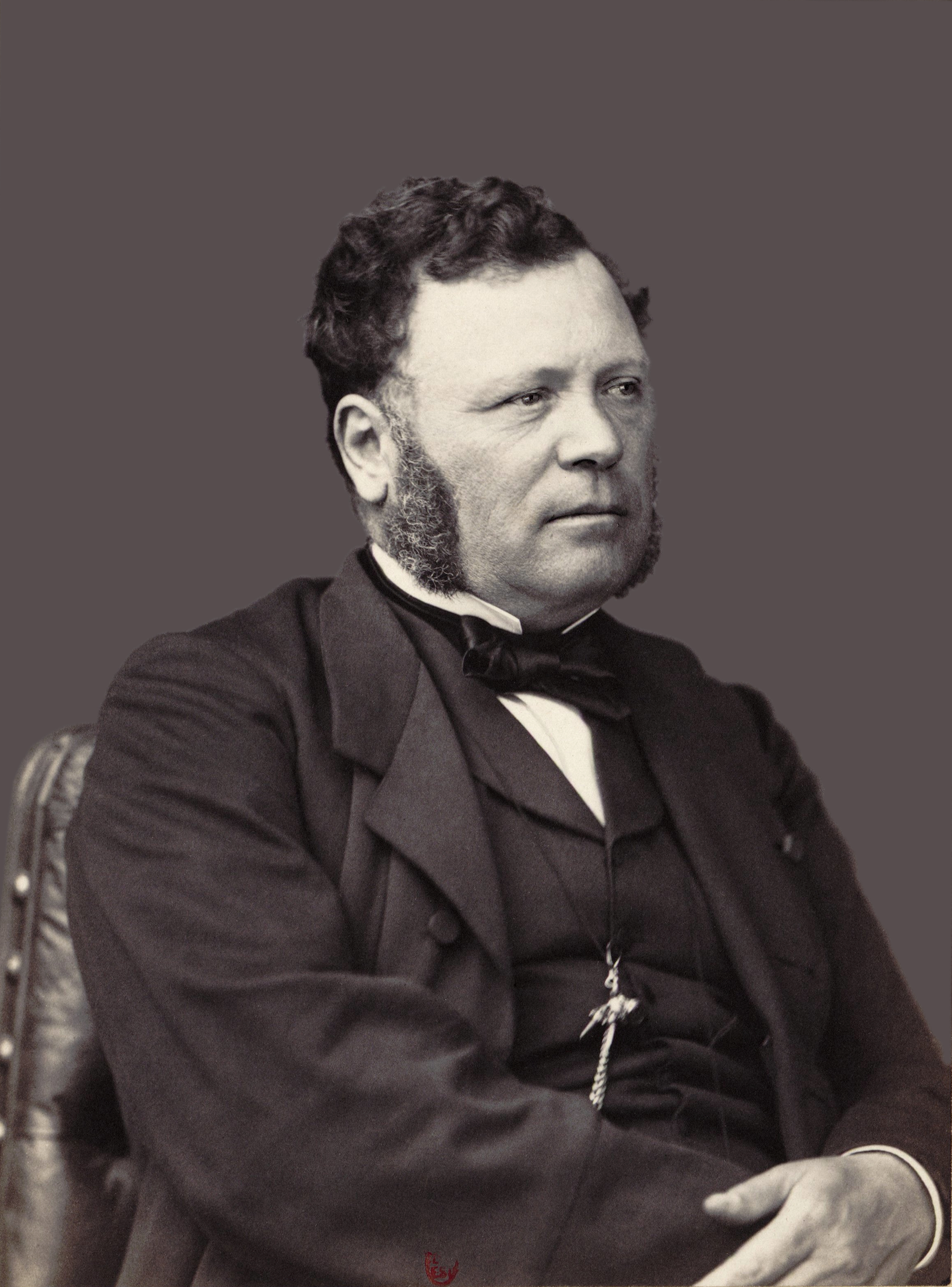 Ferdinand Barrot (1806 - 1883), french lawyer and politician.